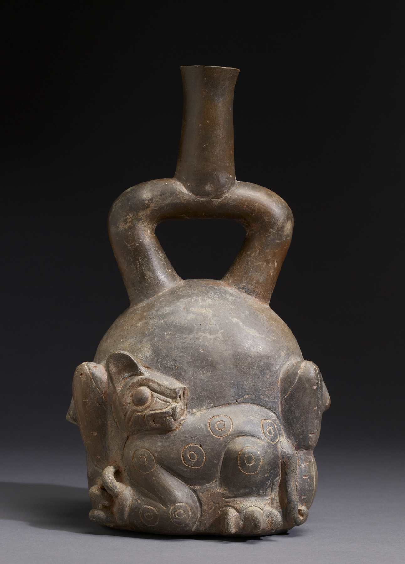 This Tembladera-style Chavín work depicts a feline rendered in relatively high relief, alternating with a cactus form that may refer to the hallucinogenic San Pedro cactus. Chavín is considered the mother civilization of the South-American Andes, and is often compared to the Olmec of Mexico in that both cultures established many patterns of art, architecture, and culture by 1000 BC, that prevailed until the arrival of Europeans in the 16th century. Stirrup-spout vessels like this example were made by the Chavín (and many other South-American peoples) using a number of molds, with details modeled by hand. Although we do not know what was stored in these vessels, suggestions include corn beer or "chicha," a native Andean fermented beverage. Chavín stirrup-spout vessels vary in both their architecture (spout-width, shape, direction) and type of decoration. Many combine incised design with modeled form, as in this example. Felines of the type depicted on this vessel were important in Chavín art and culture because they were associated with the ruling houses. In nature such animals are often excellent hunters who occupy the top of the food chain, qualities also valued in human rulers. Felines, like jaguars and pumas, were also thought to enjoy great spiritual force; shamans were believed to transform into such creatures.